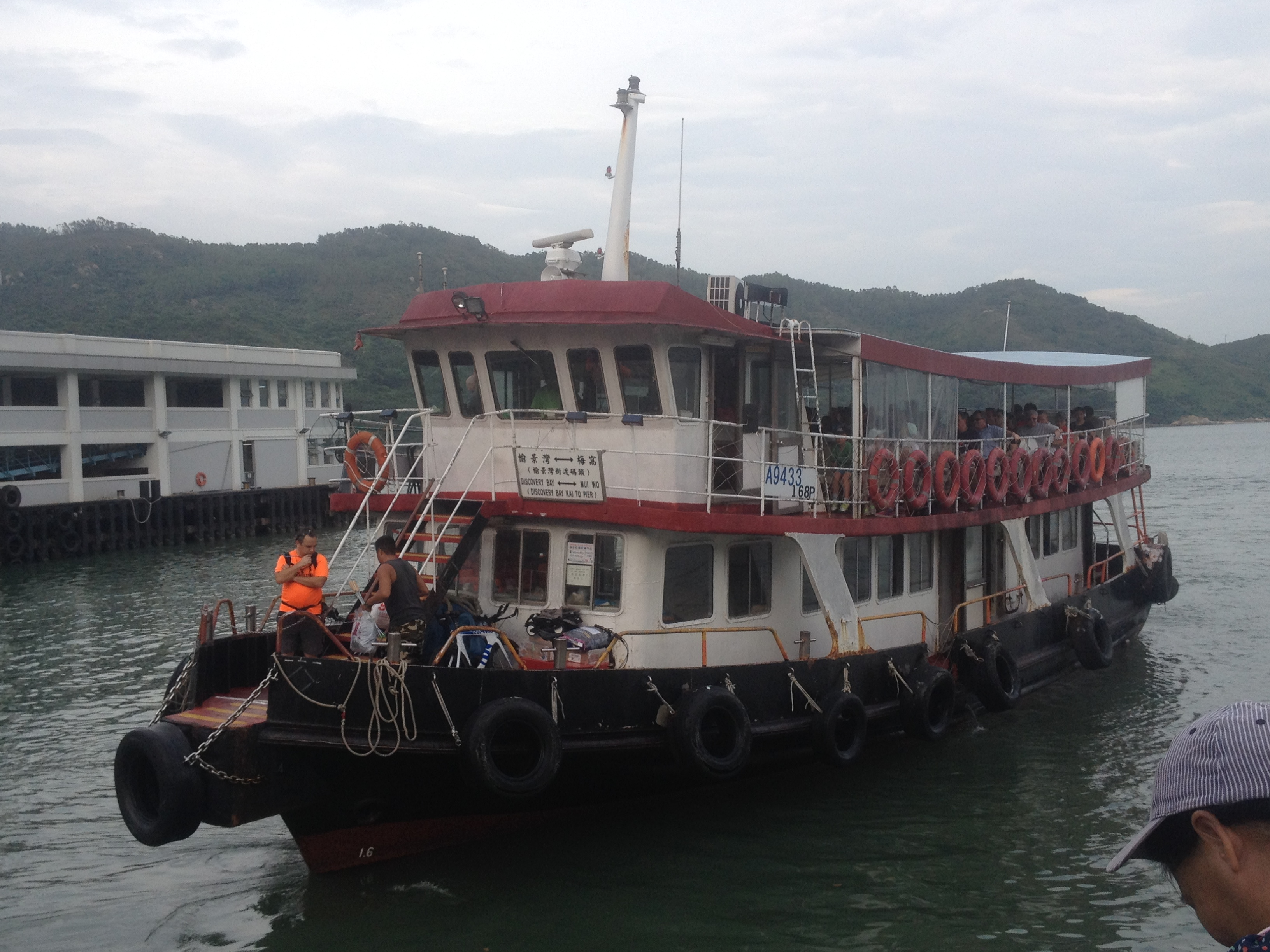 This photo is taken in Mui Wo.